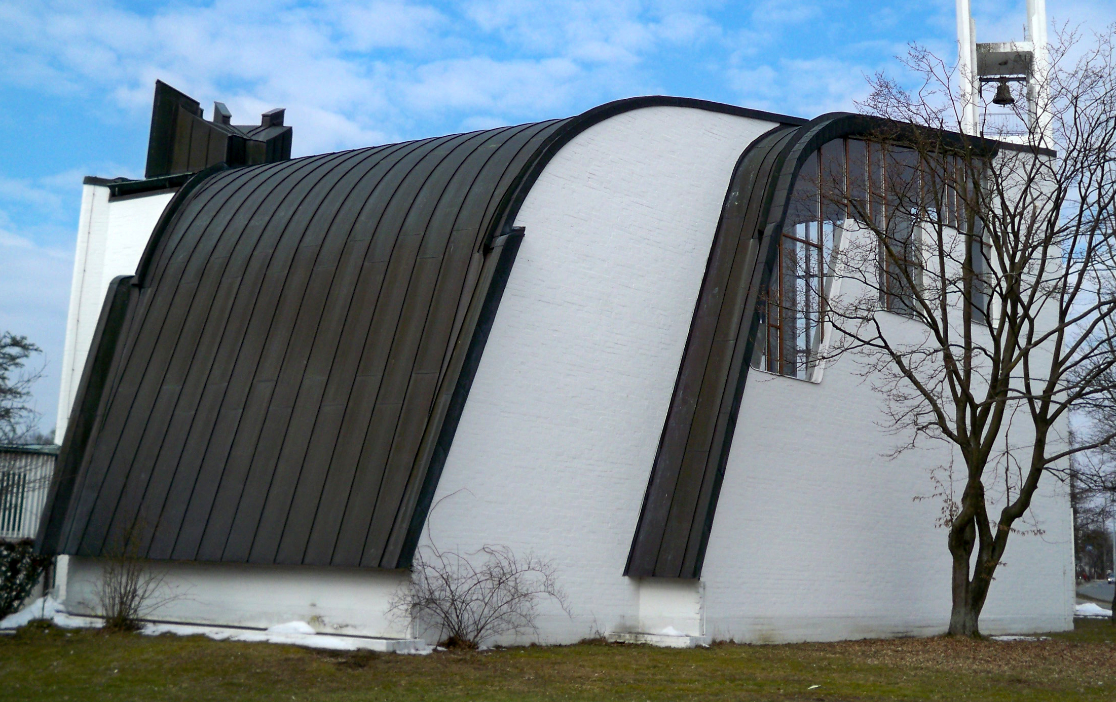 Wolfsburg, Lower Saxony, Heilig-Geist-Kirche from northwest